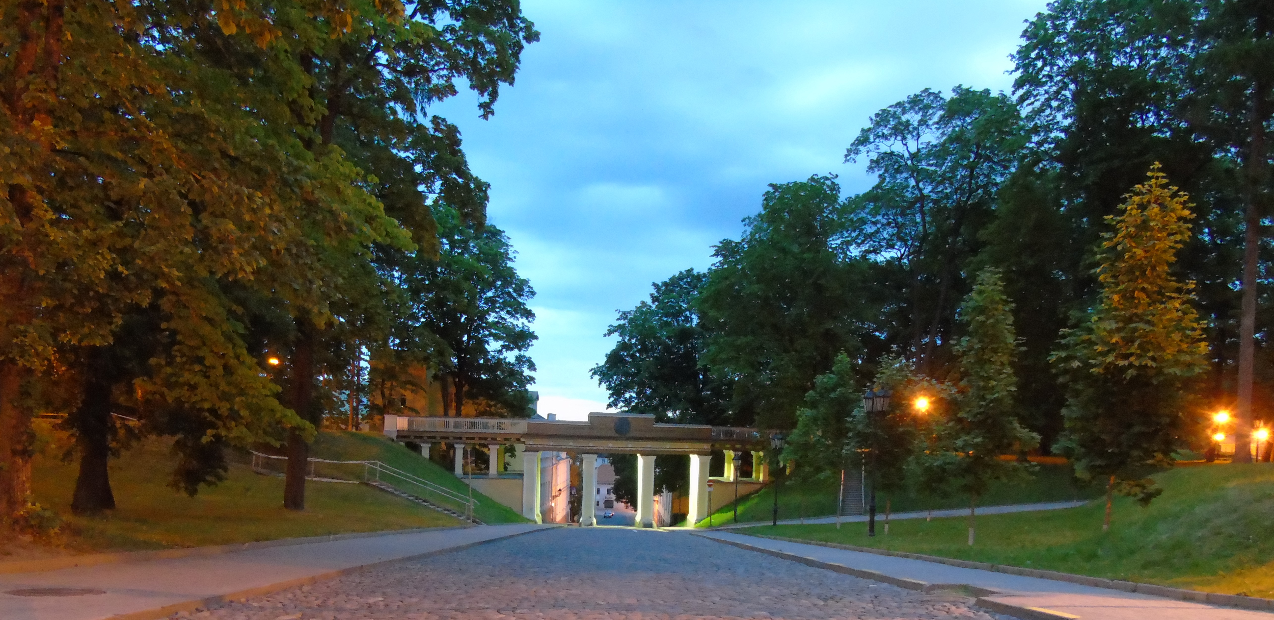 Angel's Bridge in Tartu